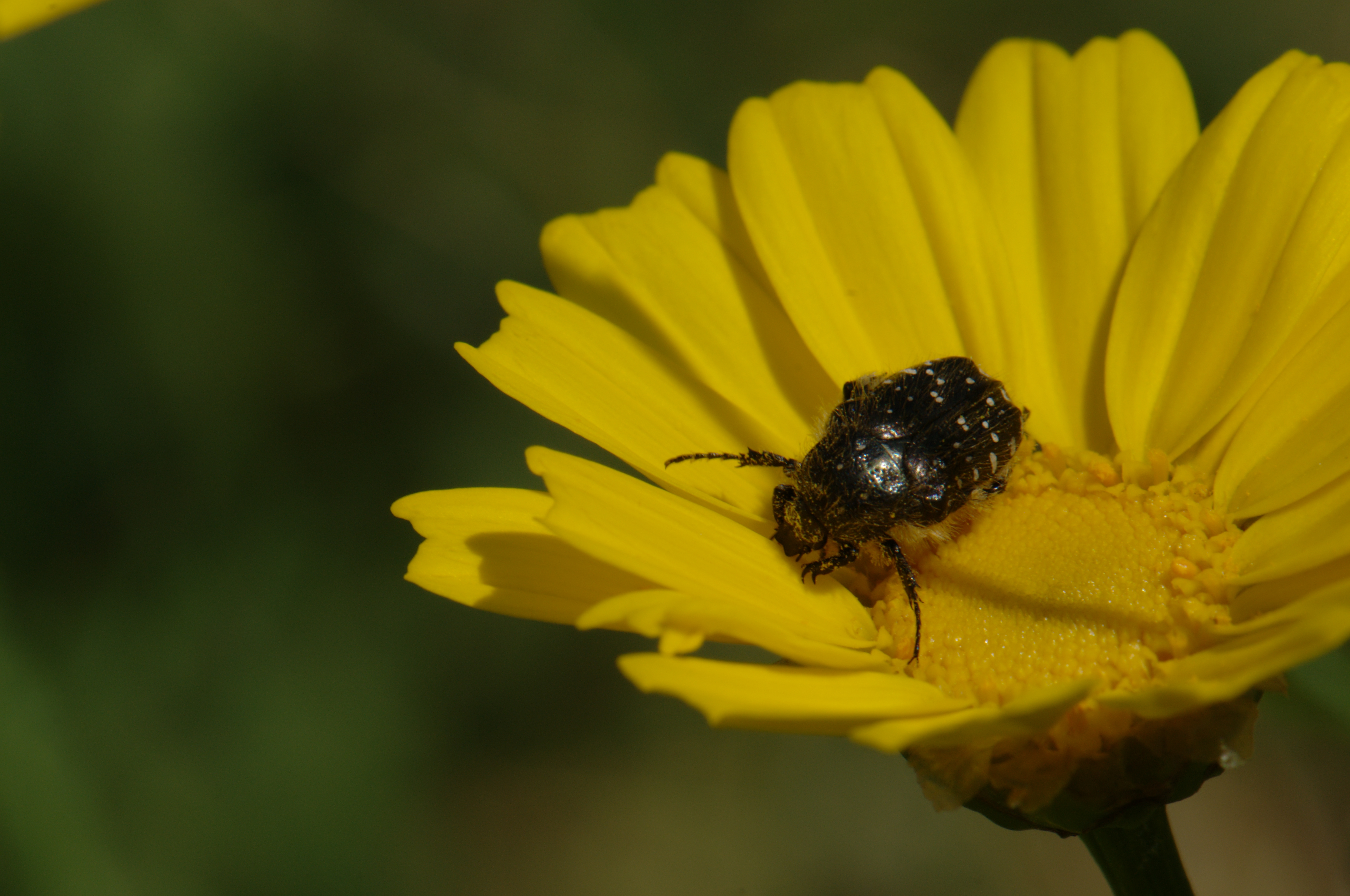 Oxythyrea funesta, Found in Vence, Alpes-Maritimes, France (Nearby Nice, Cannes). Mediterranean climate. Height : 317 m N: 43°43.53 E 7°06.66.